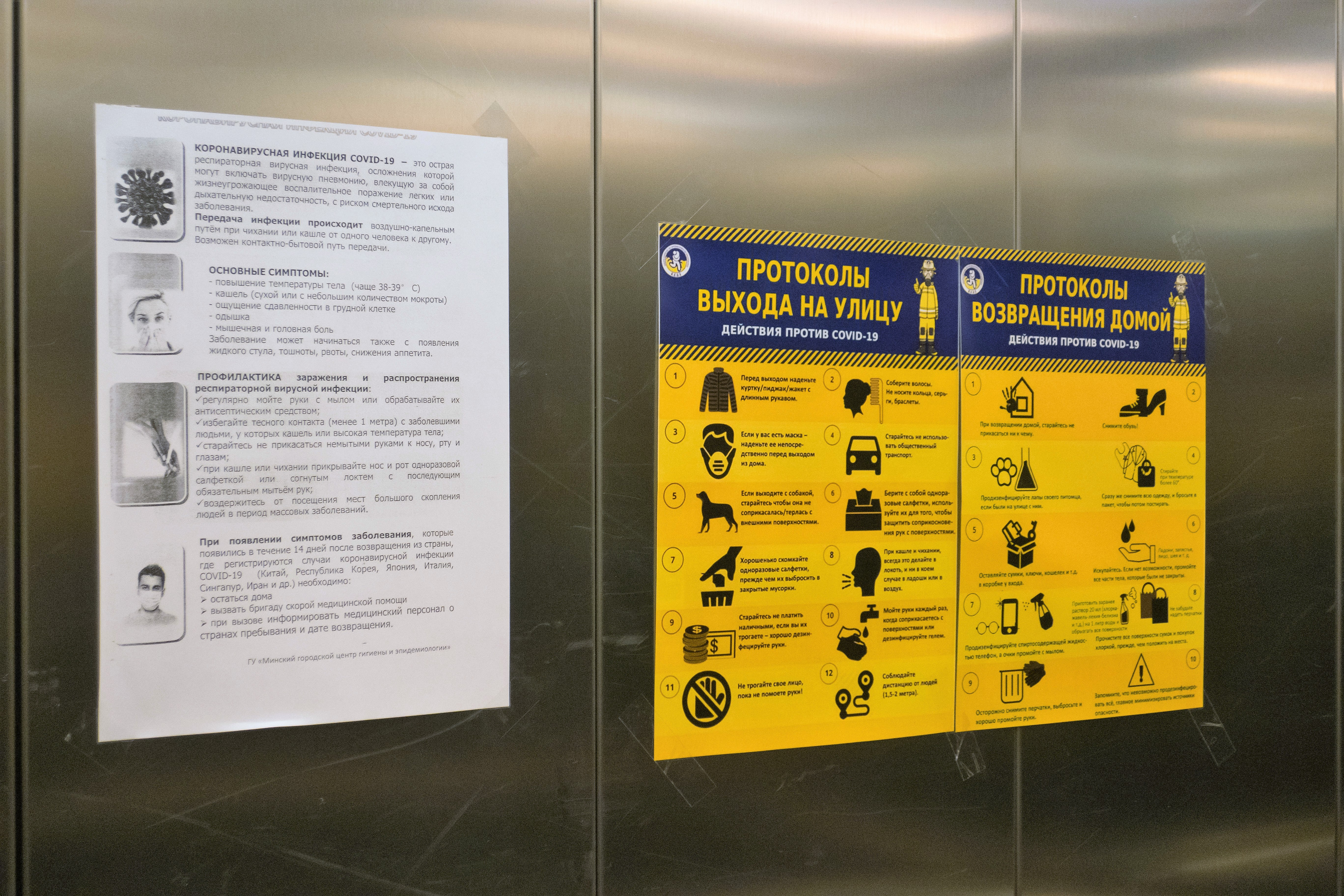 COVID-19 information and preventive measures. Photo taken at the National Library of Belarus in Minsk. Left paper: general information about COVID-19, its symptoms, prophylactic measures and symptom protocol (issued by the Minsk city center of hygiene and epidemiology), right papers: "Exit protocols" and "Homecoming protocols".